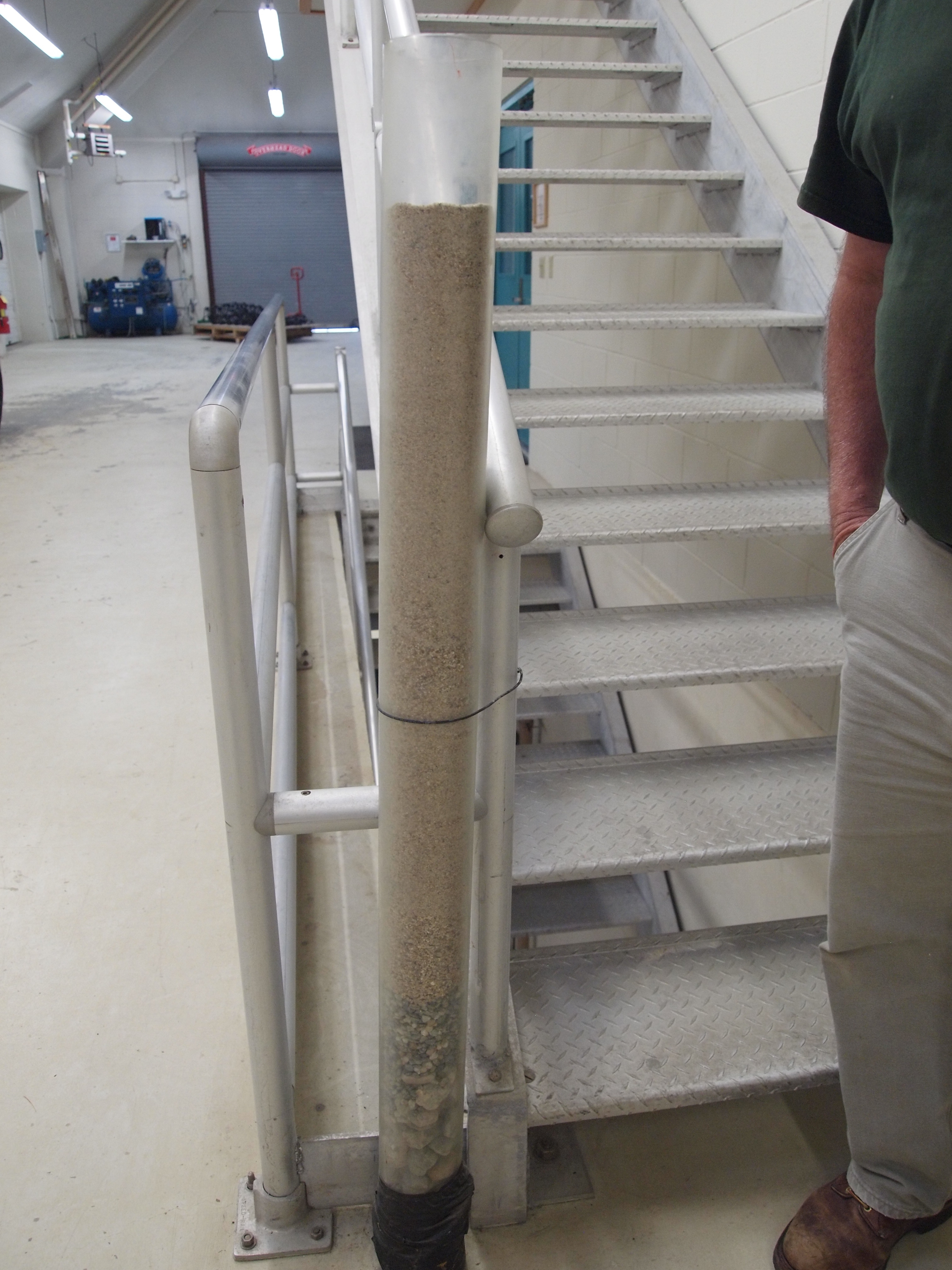 A profile of sand and rock used as part of the slow sand filter is on display in a transparent tube attached to a staircase in a water purification plant.